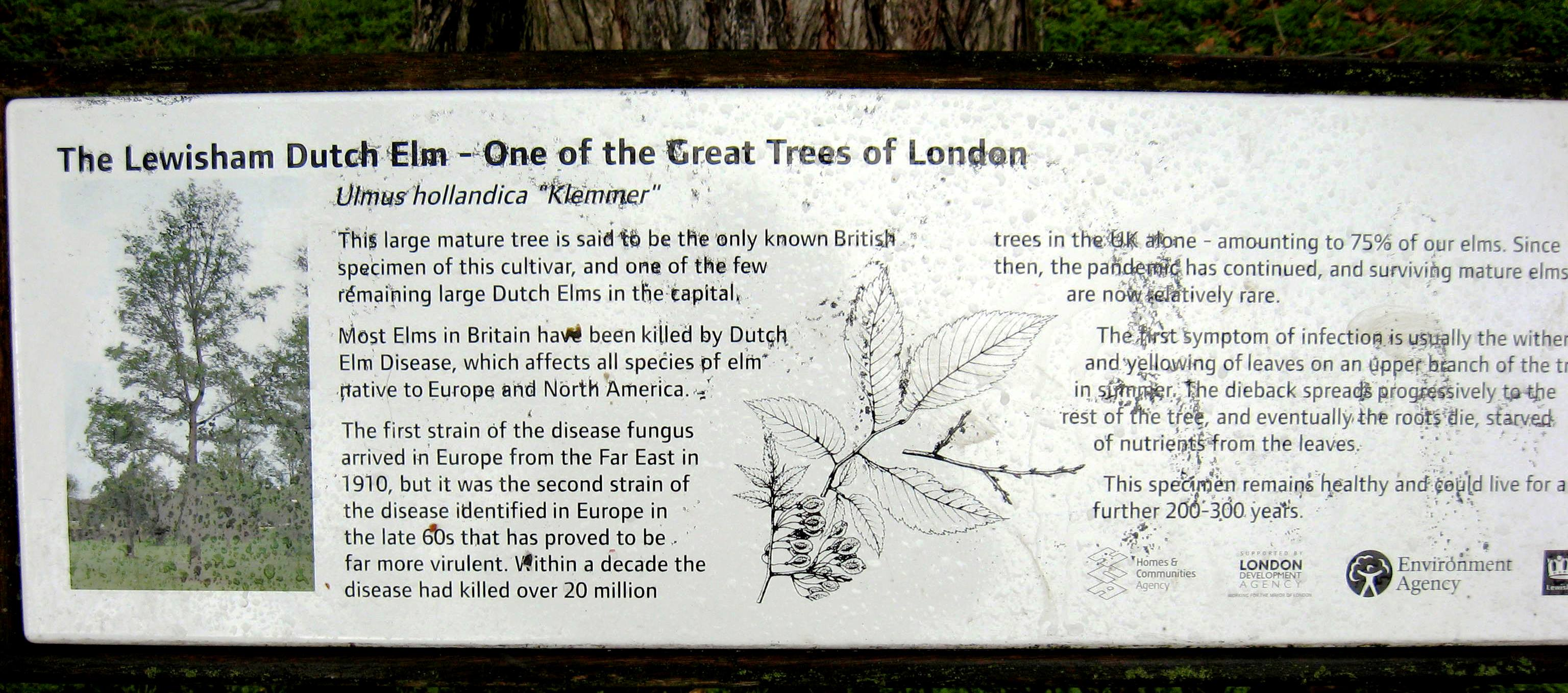 Information noticeboard in Ladywell Fields park, Lewisham, erroneously identifying the Lewisham Elm as Ulmus x hollandica 'Klemmer'.